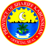 Provincial seal of the former province of Shariff Kabunsuan, Philippines.